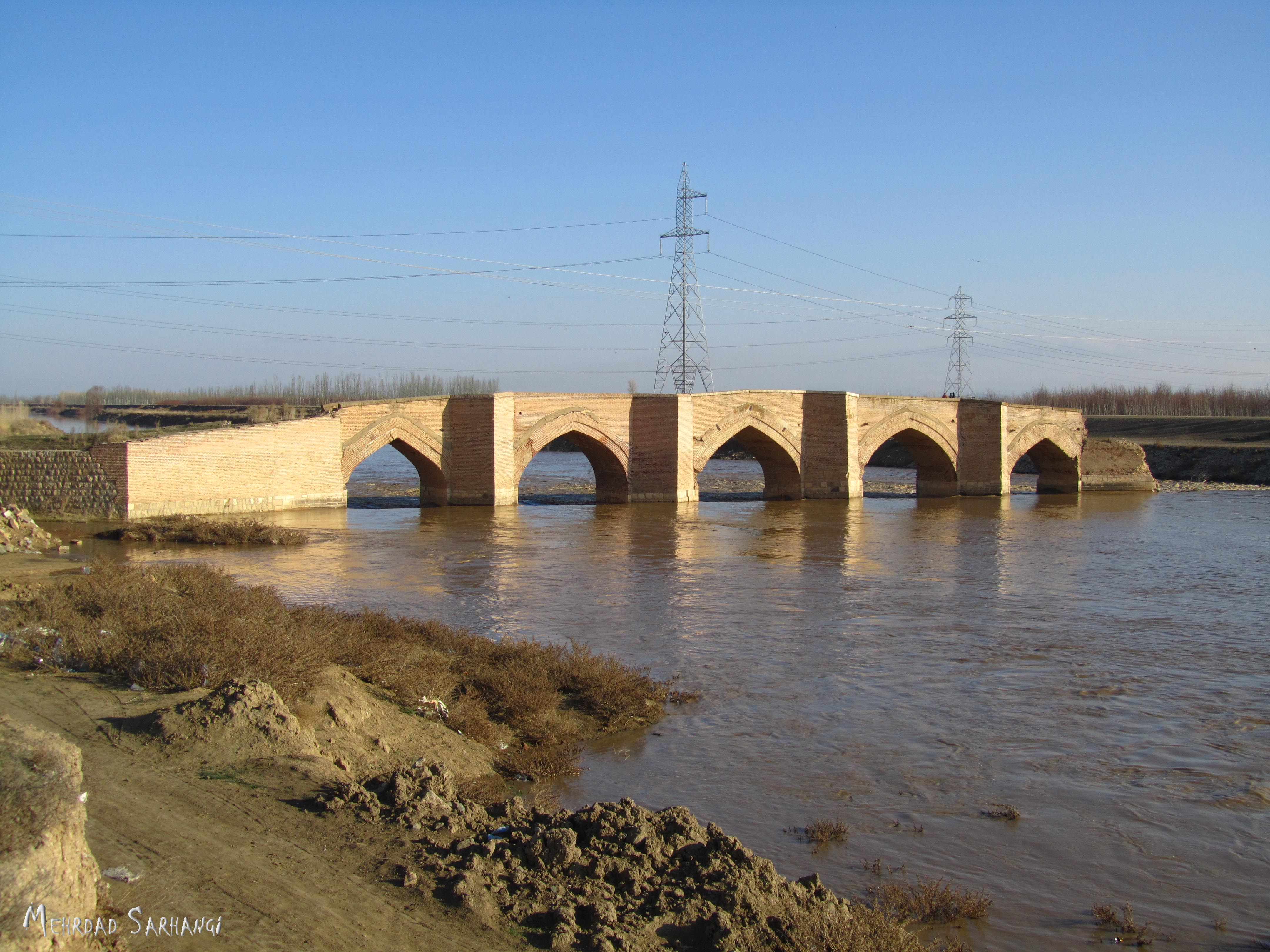 پل تاریخی میاندواب Miandoab historic bridge